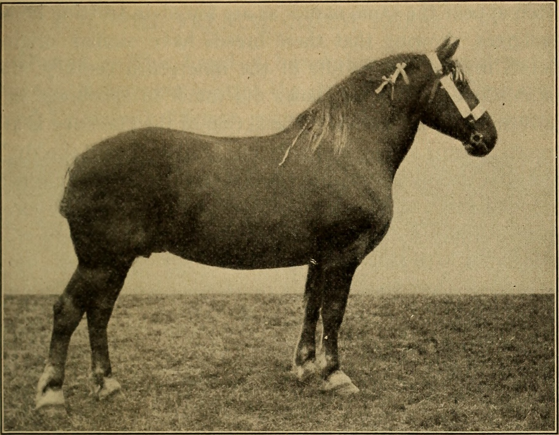 Title: Animal husbandry Year: 1920 (1920s) Authors: Tormey, John Lawless, 1881-; Lawry, Rolla Cecil, 1884- joint author; Hatch, K. L. (Kirk Lester), 1871- Subjects: Livestock Publisher: New York, American Book Co Text Appearing Before Image: COACH BREEDS 89 Text Appearing After Image: Fig. 24. — Suffolk horse. These horses are uniformly chestnut in color and breed very true to type, which makes them valuable for pur- poses of grading. The males weigh from 1900 to 2000 pounds, and the females about 1600 to 1700 pounds, at mature weight. THE HACKNEY HORSE Coach Breeds. — The Hackneys belong to the coach or carriage horses, which include three other types; French Coach, German Coach, and Cleveland Bay. History. — Hackneys are heavy harness horses, in which beauty and attractiveness of action are combined with strength and symmetry of body. They originated in Yorkshire, England, where as early as 1800 they were bred for trotting purposes. In early Hackney pedigrees there